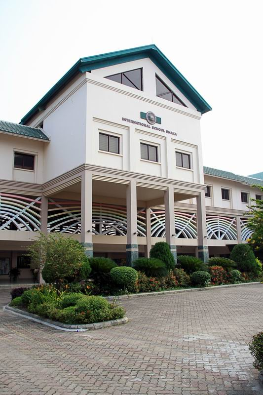 International School Dhaka